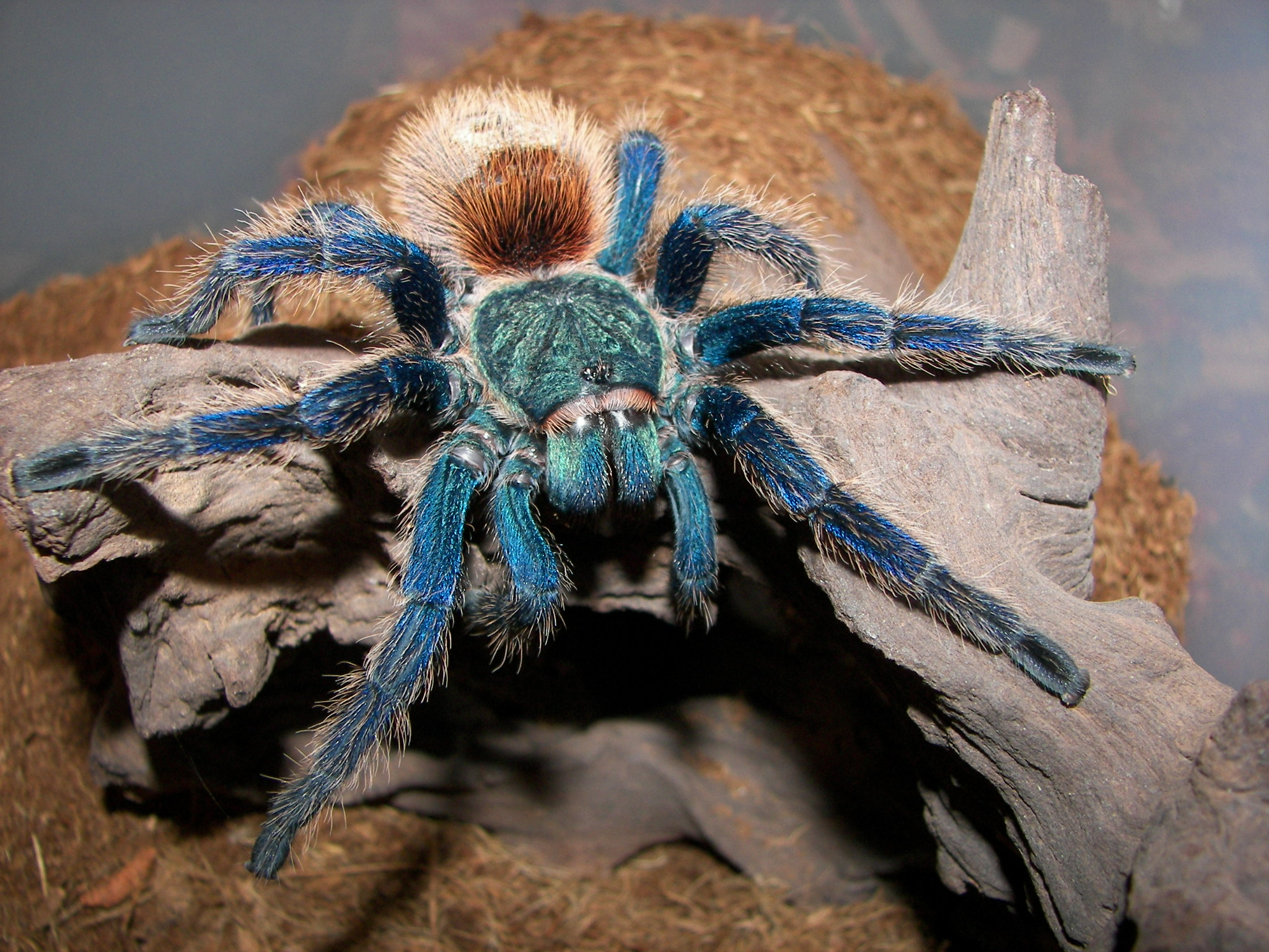 Chromatopelma cyaneopubescens